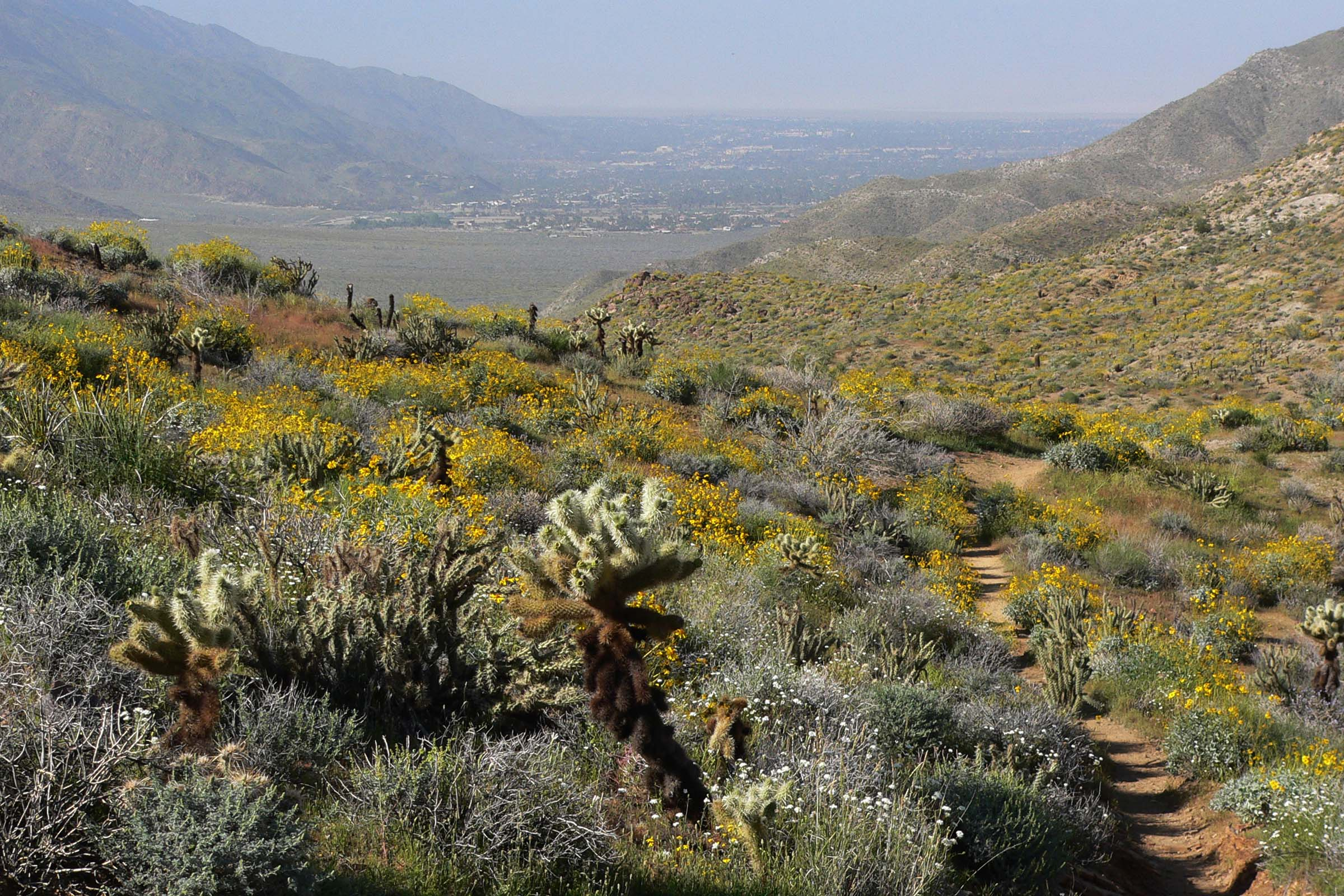 Photo of Palm Canyon with Palm Springs, California in the distance